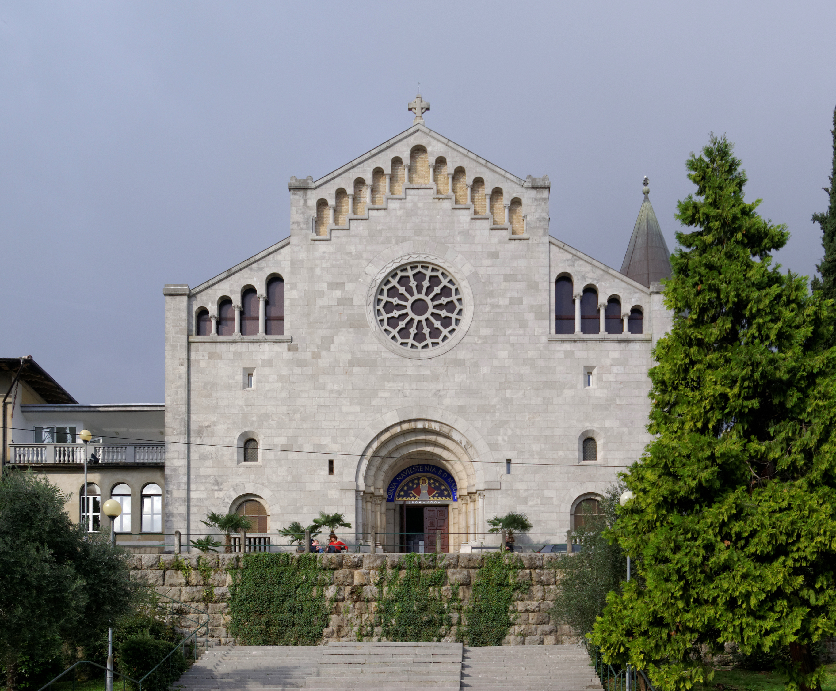 Croatia, Opatija, Church of the Annunciation of the Blessed Virgin Mary